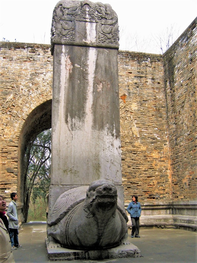 A bixi stone tortoise carrying a stele at Shifangcheng, near the Hongwu Emperor mausoleum on the Purple Mountain east of Nanjing